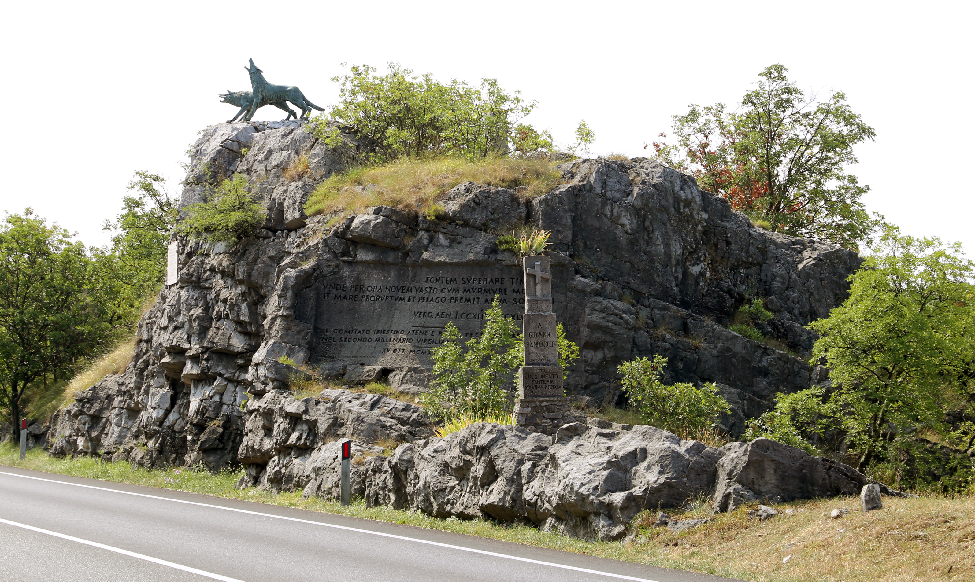 Monument to the Lupi di Toscana (Duino)